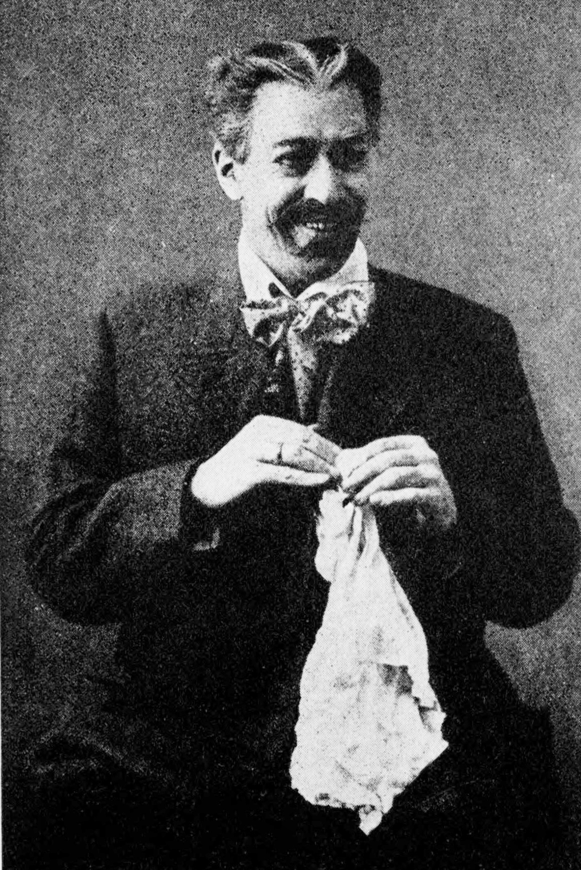 Stanislavski